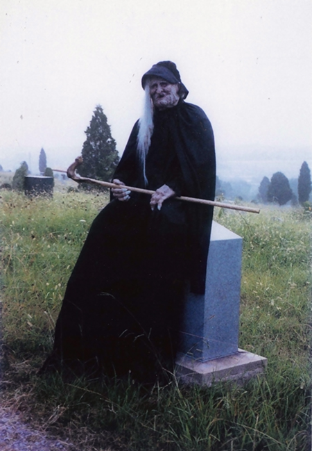 Photo of Tall Betsy taken at Fort Hill Cemetery in Cleveland, TN, from 1993.